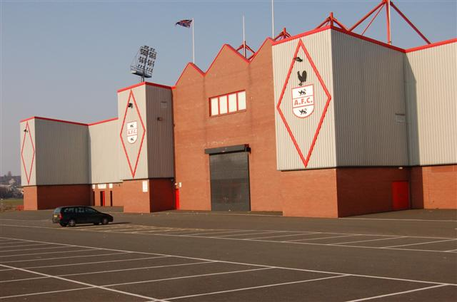 The Excelsior Stadium. This is the home ground of Airdrie United FC. 149473